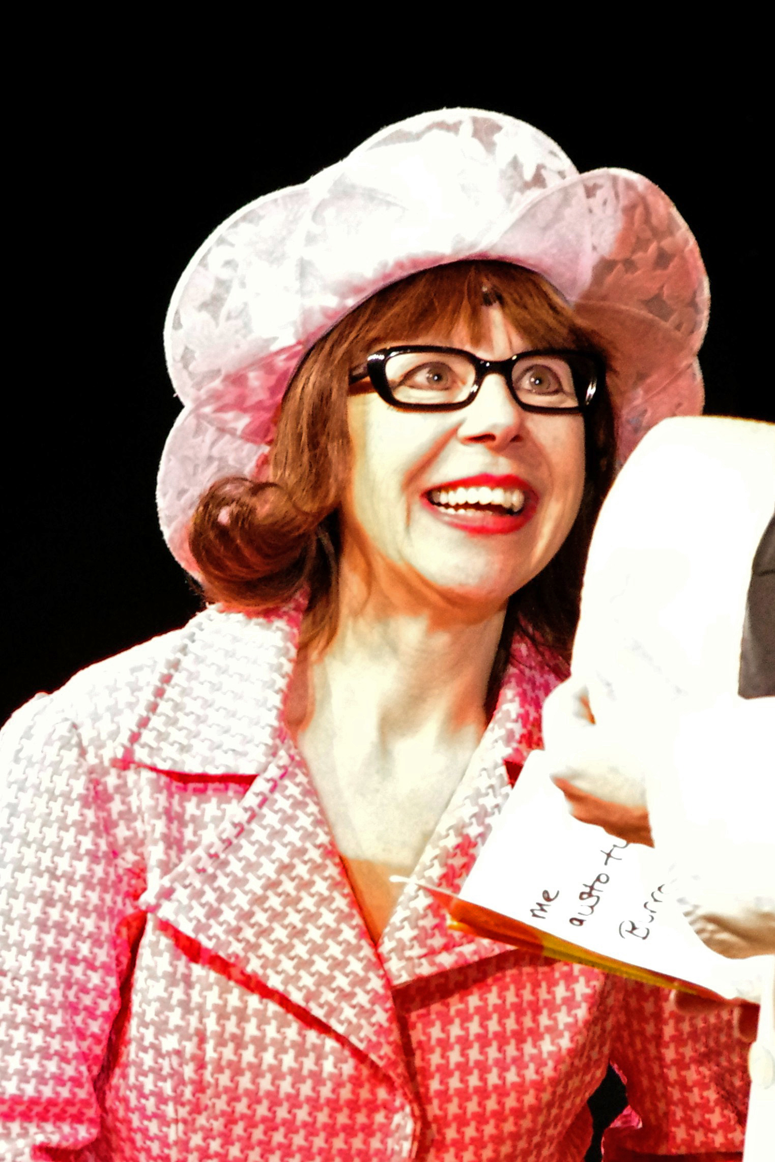 Krissie Illing is Wilma in Nickelodeon's "Costa del Love", Jan. 2014